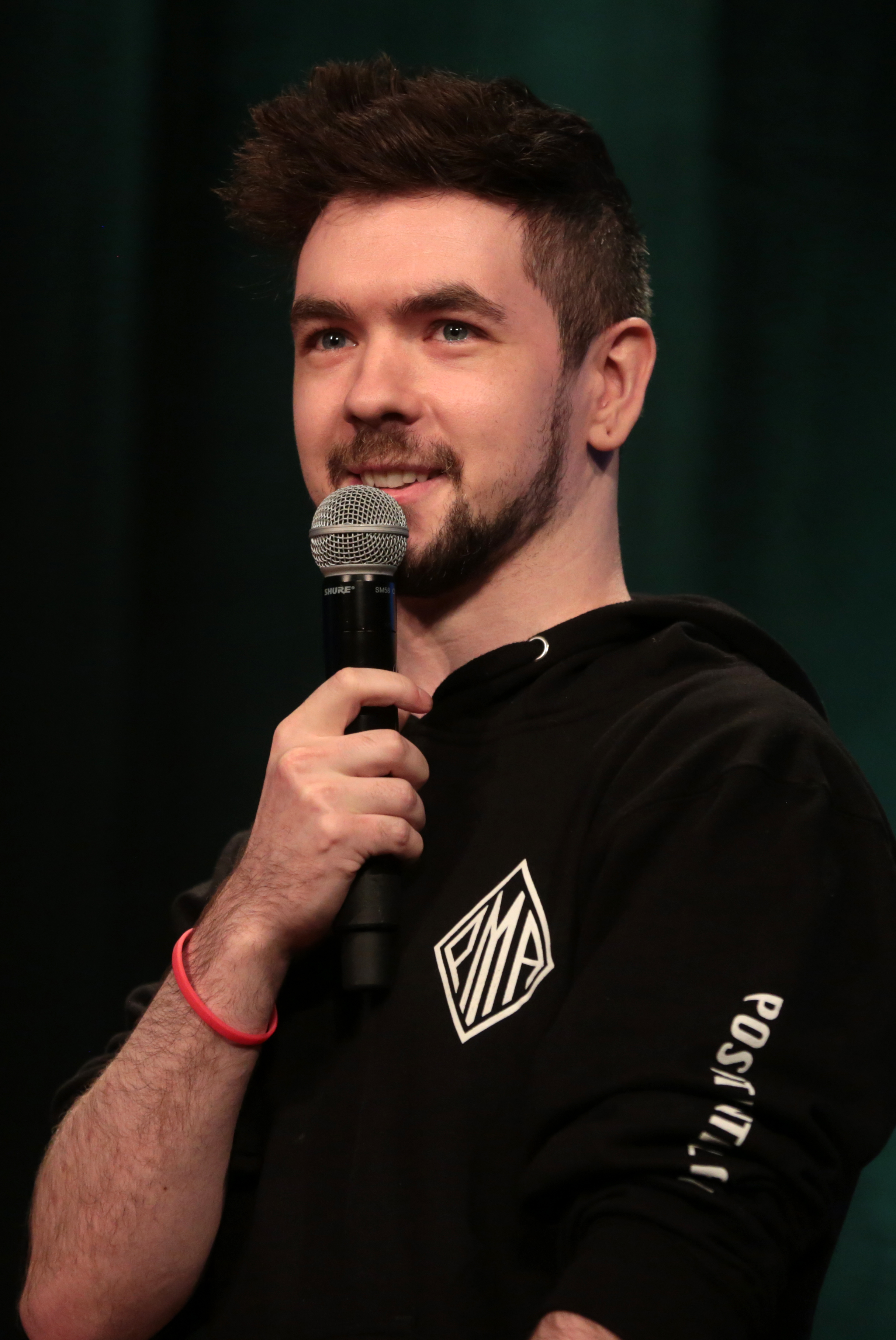 Jacksepticeye speaking at the 2018 PAX West in Seattle, Washington.